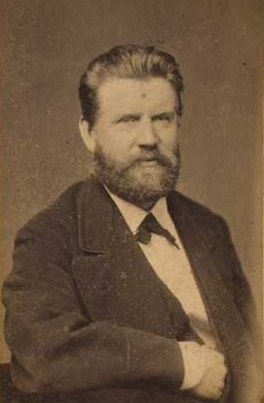 Ferdinand Edvard Ring, Danish sculptor